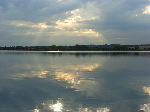 Former gravel pits, Sonning The first in a sequence of photos I took as I watched the changing sky on a mostly cloudy evening.